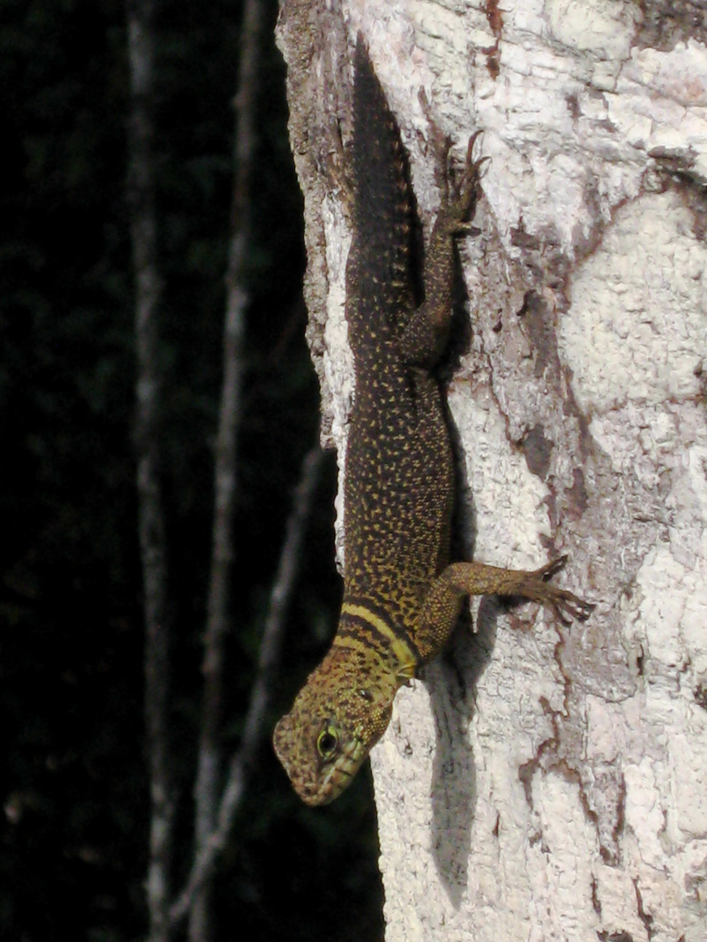 A juvenile or female Tropical Thorntail Iguana (Amazon Thorntail Iguana).